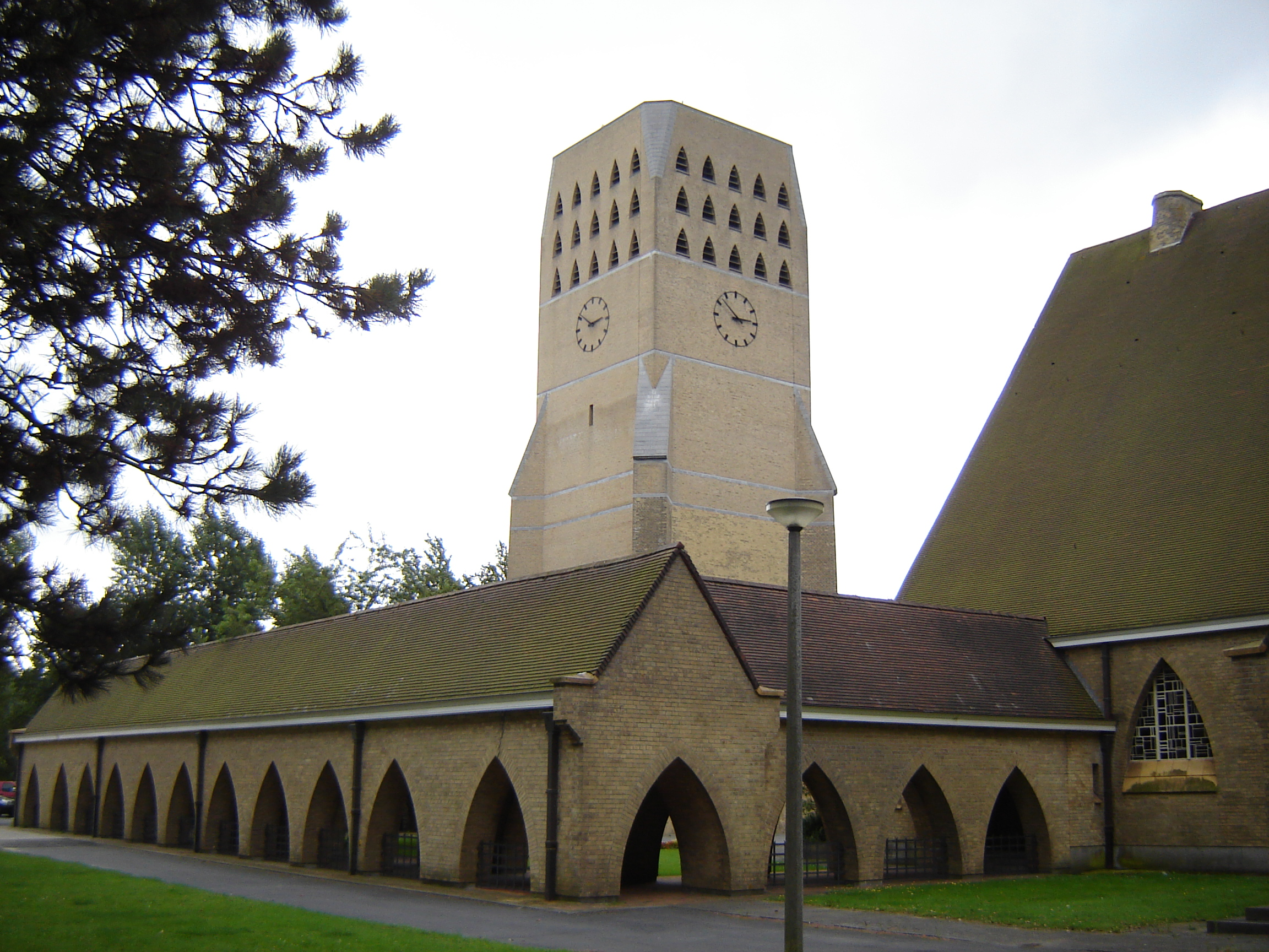 Church of Saint Nicholas in Oostduinkerke. Oostduinkerke, Koksijde, West Flanders, Belgium